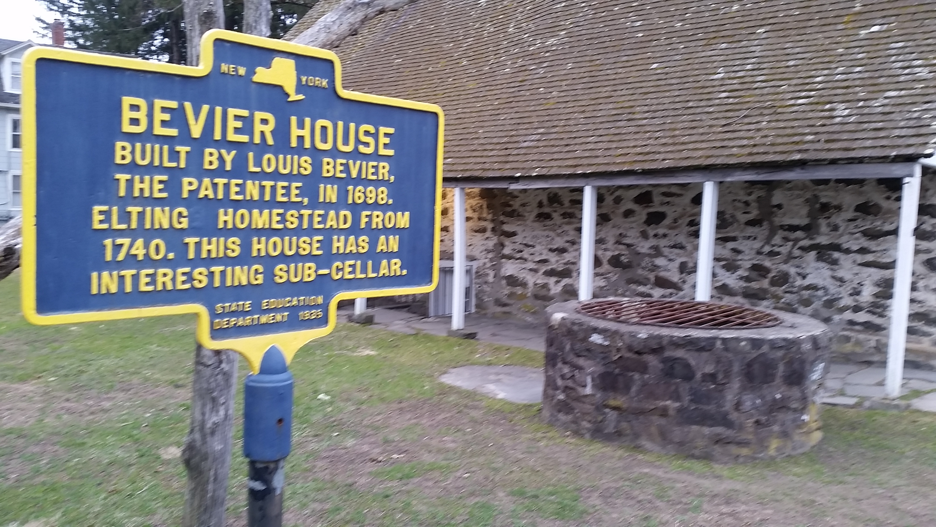 NY State Historic Marker at New Paltz's Huguenot Street Historic District for the Bevier House